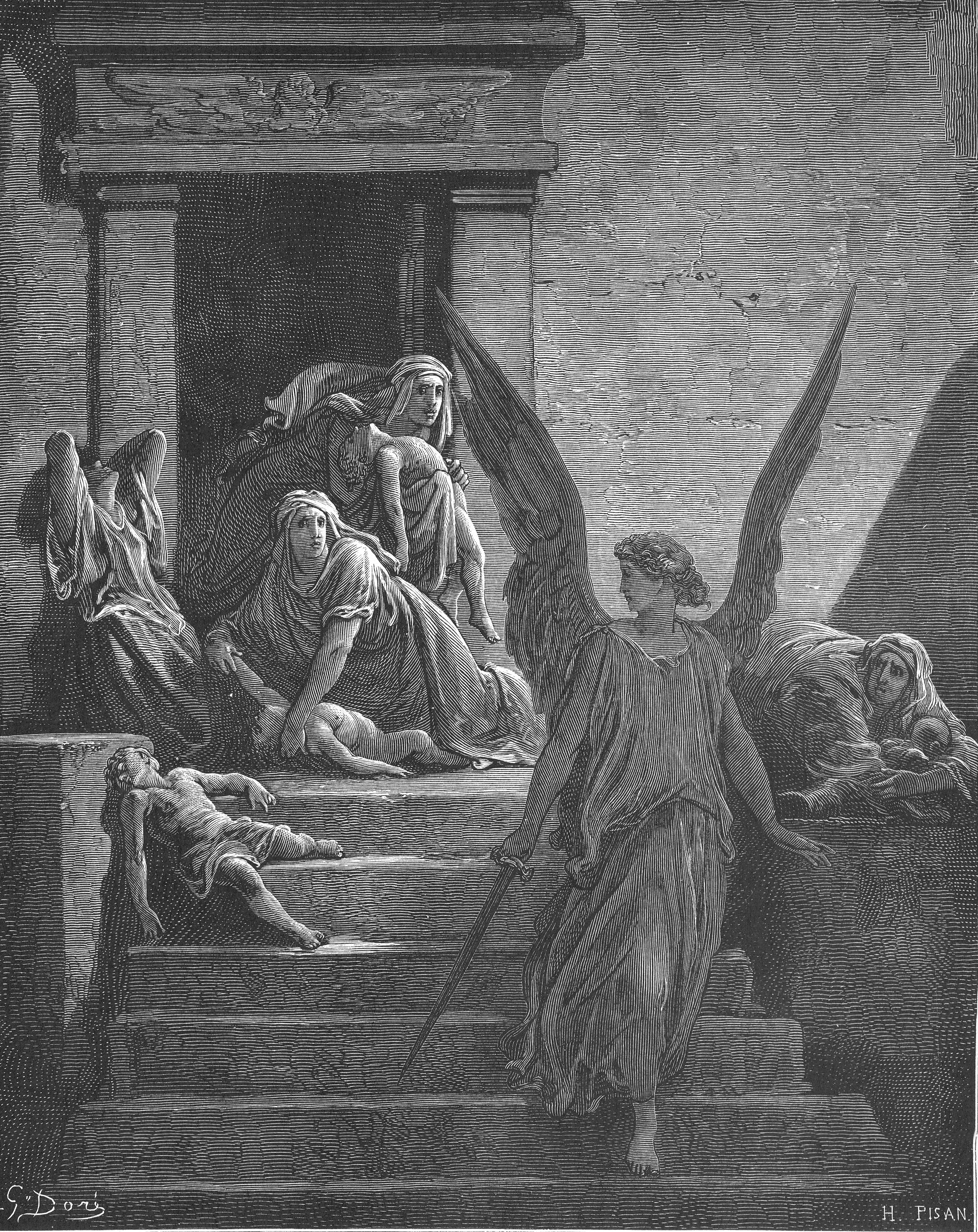 The Firstborn of the Egyptians Are Slain (Ex. 12:21-29)